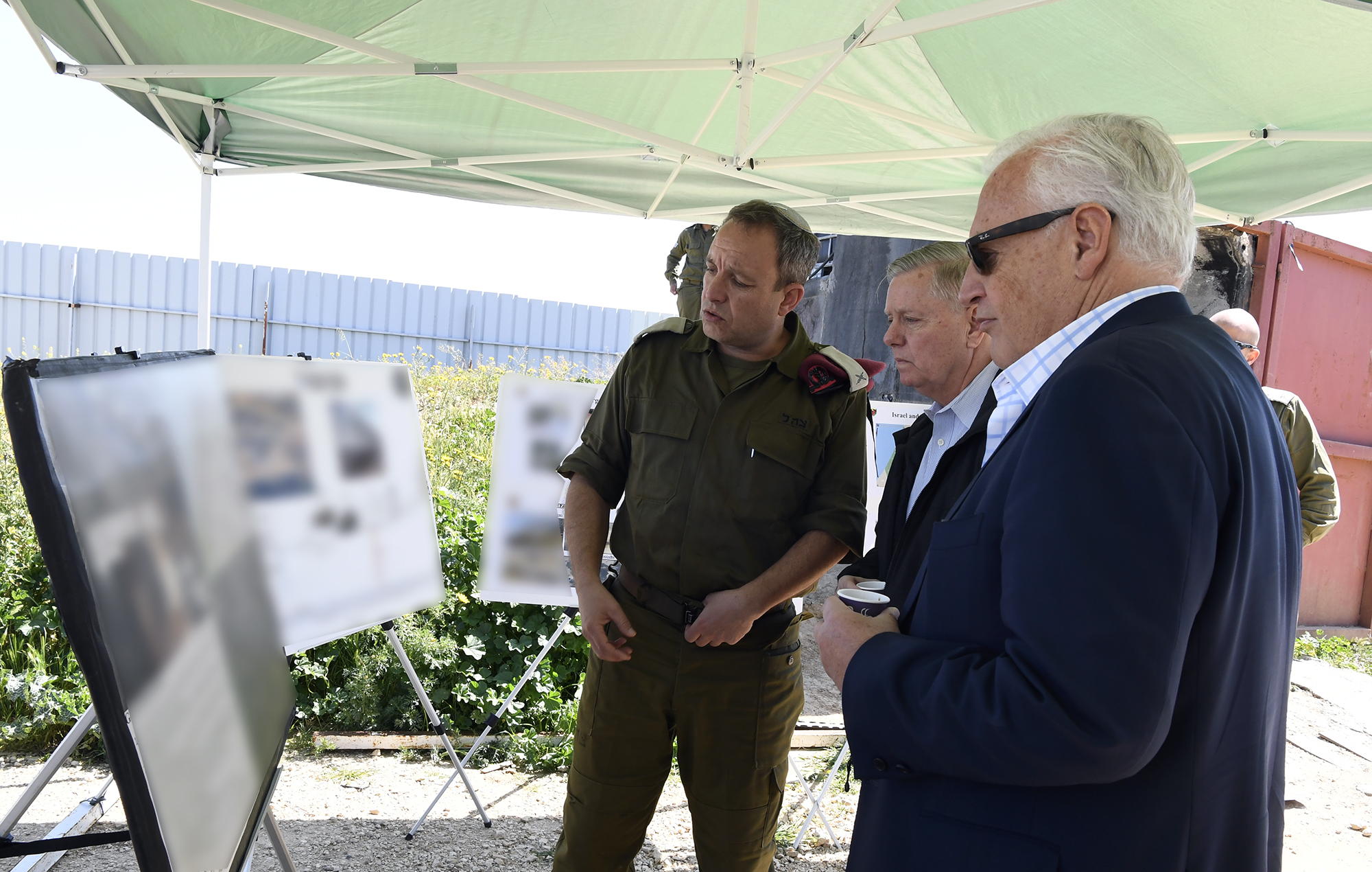 .S. Senator Lindsey Graham (R, South Carolina) and U.S. Ambassador to Israel David Friedman visit the Israel-Gaza border area, on March 10, 2019. Senator Graham and Ambassador Friedman were briefed by IDF Southern Command Commander Maj.-Gen. Herzi Halevi and also visited an unearthed cross-border Hamas terror tunnel. Photo credit: Matty Stern/U.S. Embassy Jerusalem